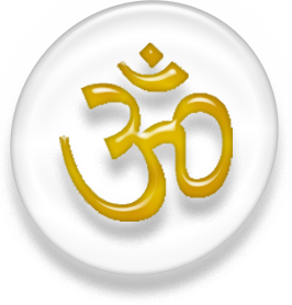 Symbol of Hinduism, white and golden version.